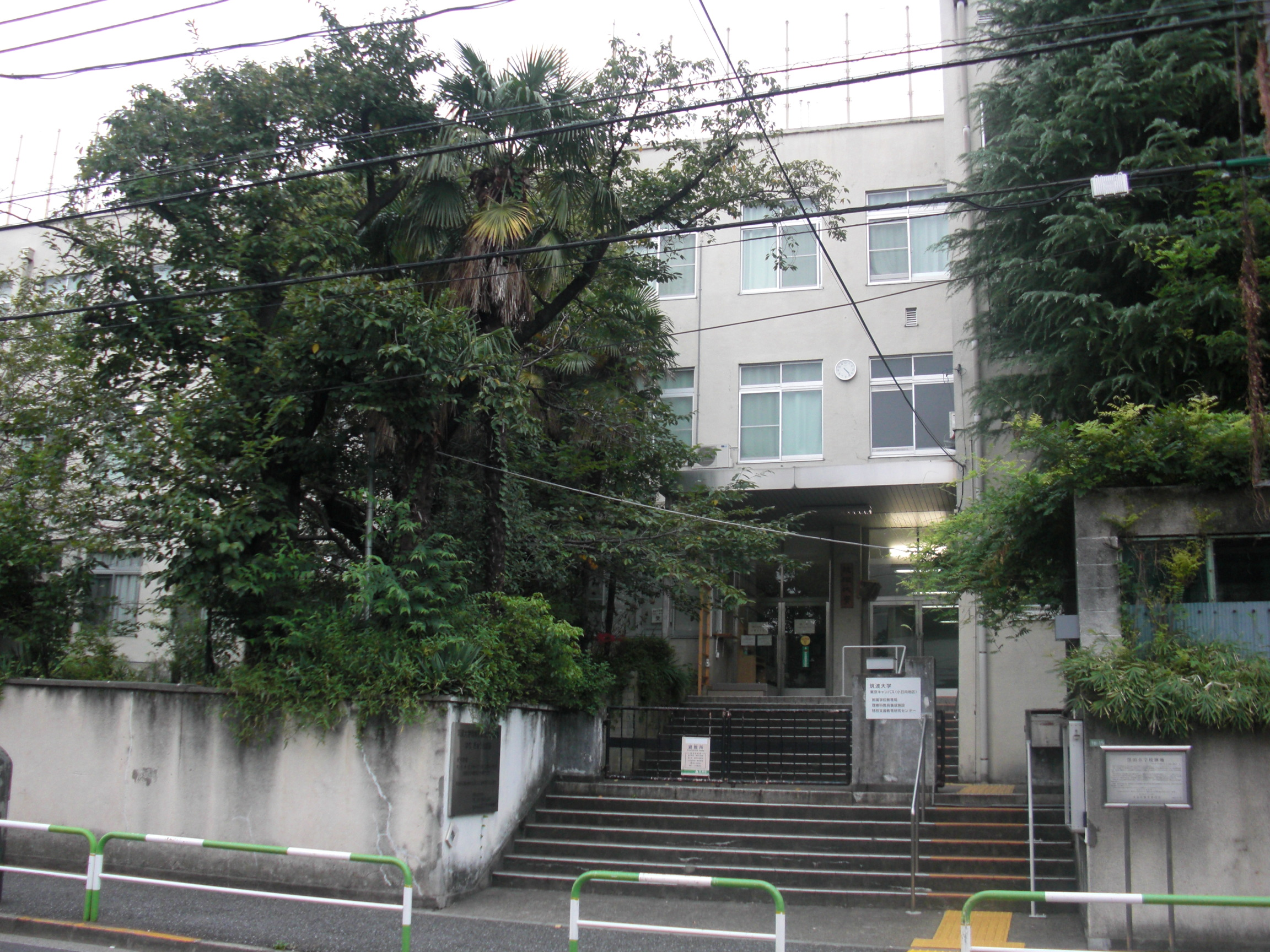 This building is former Bunkyo city 5th junior high school. It is now used for University of Tsukuba Tokyo Campus Kohinata area.